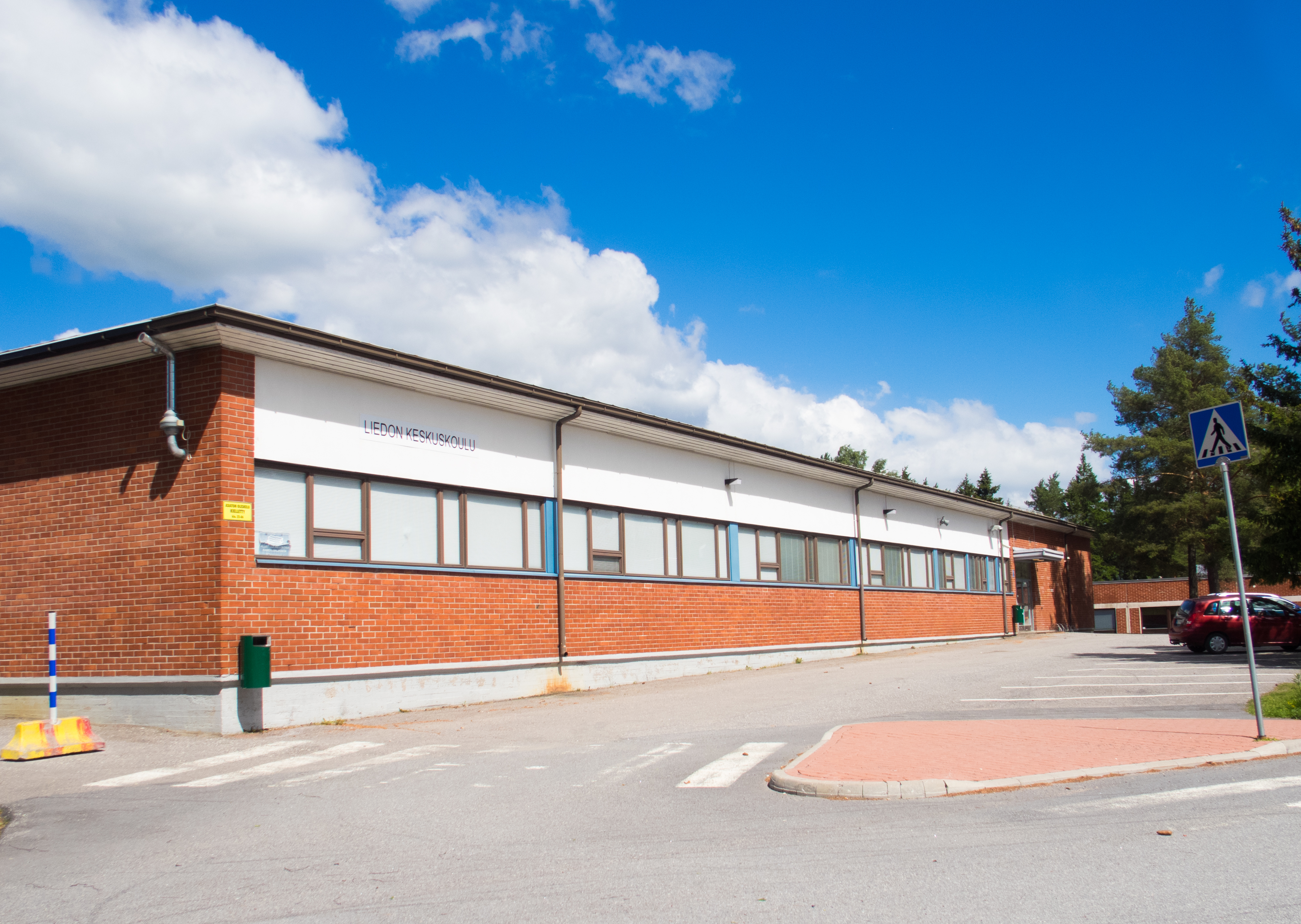 Liedon keskuskoulu, the secondary school in Lieto centre, Finland.